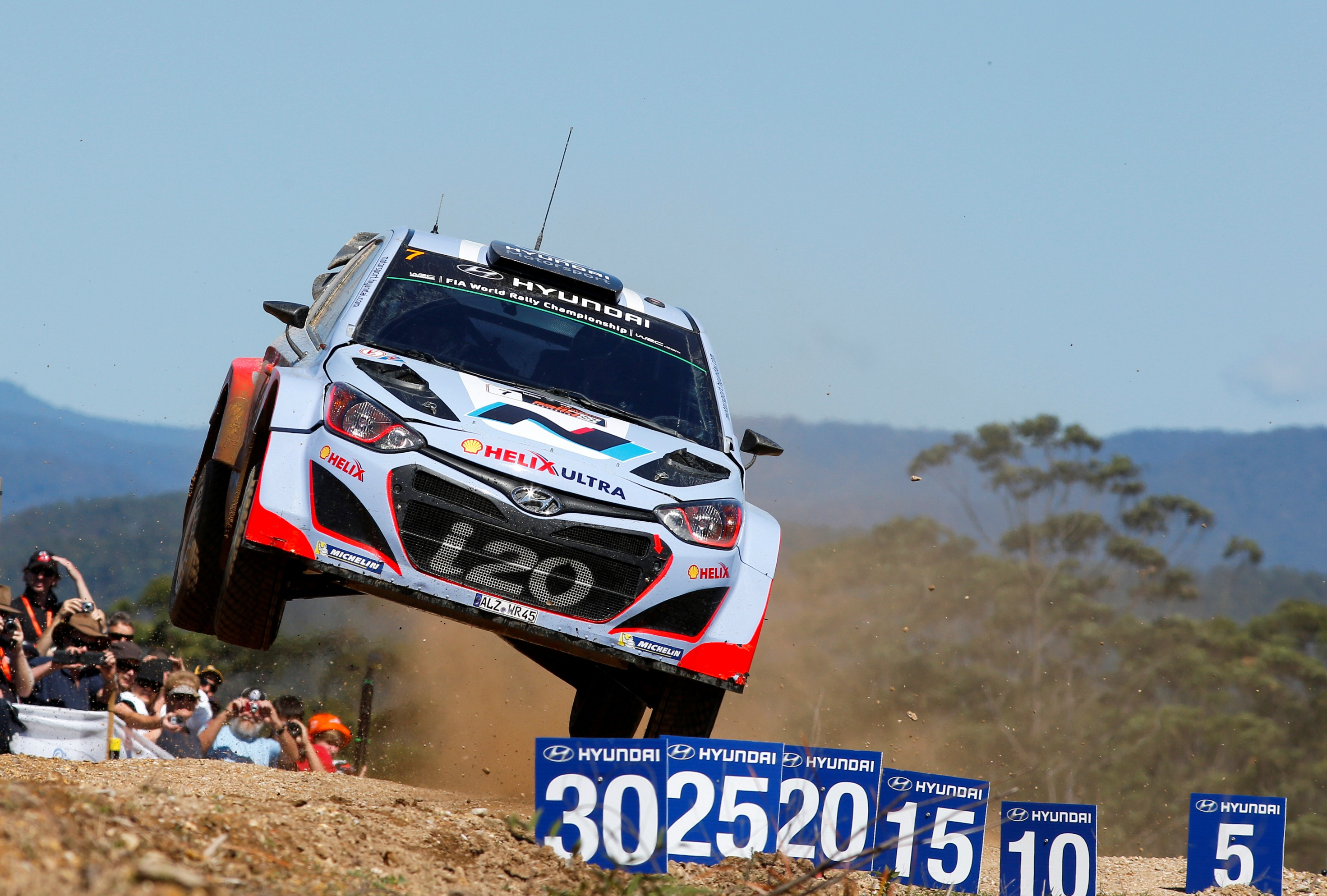 Thierry Neuville and co-driver Nicolas Gilsoul in their Hyundai i20 WRC at the 2014 Rally Australia.